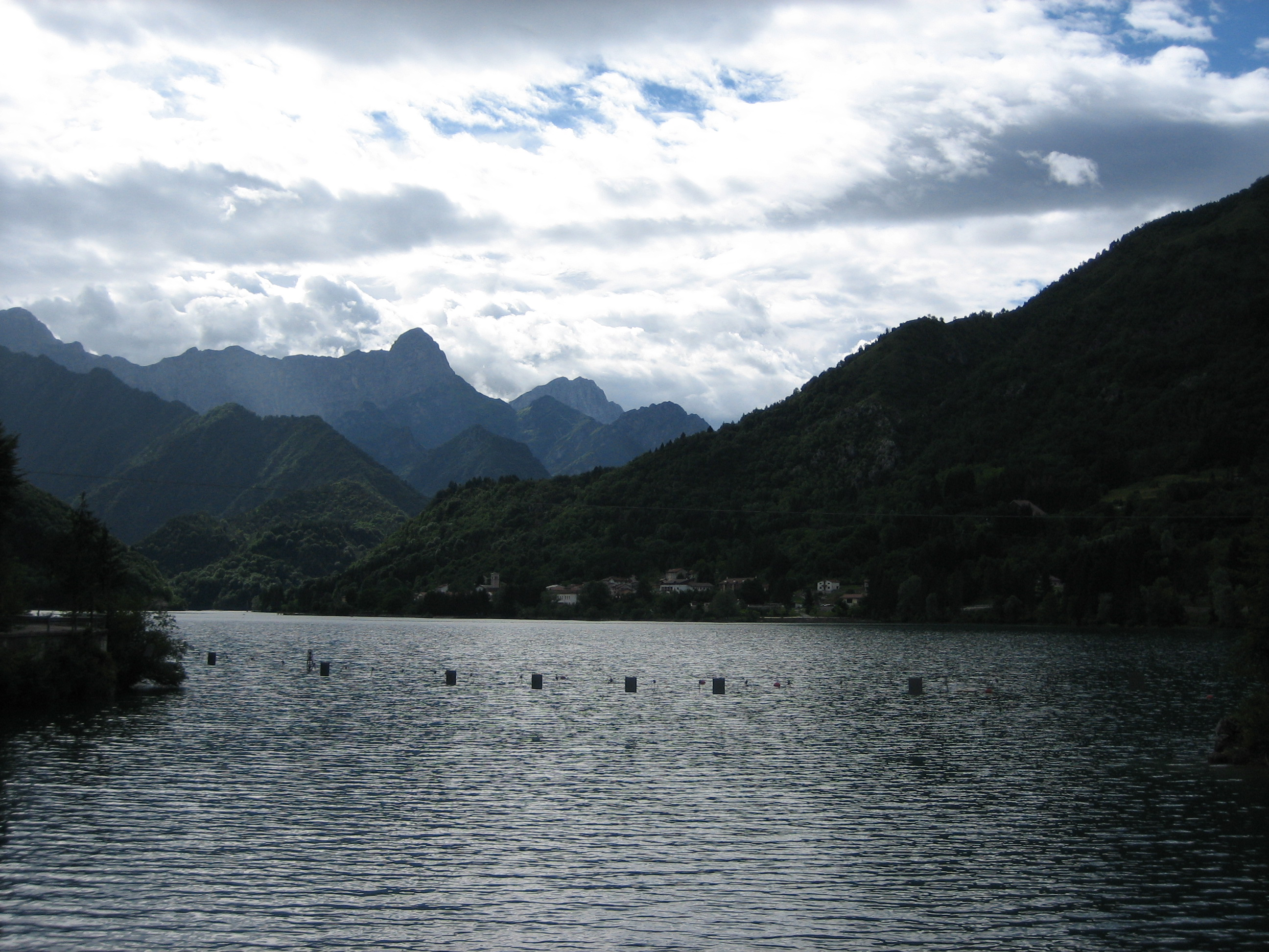 Barcis Lake, Friuli-Venezia Giulia, Italy